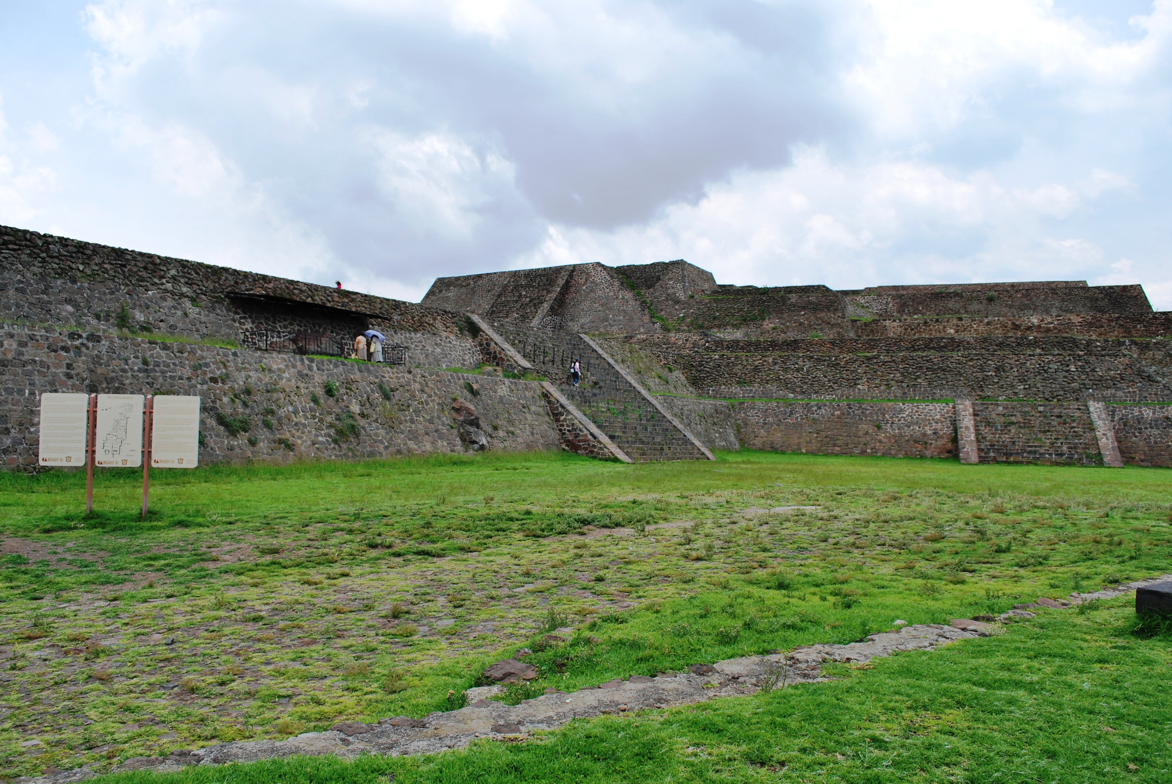 View of ruins from the entrance of the site of Teotenango, Tenango del Valle, Mexico State